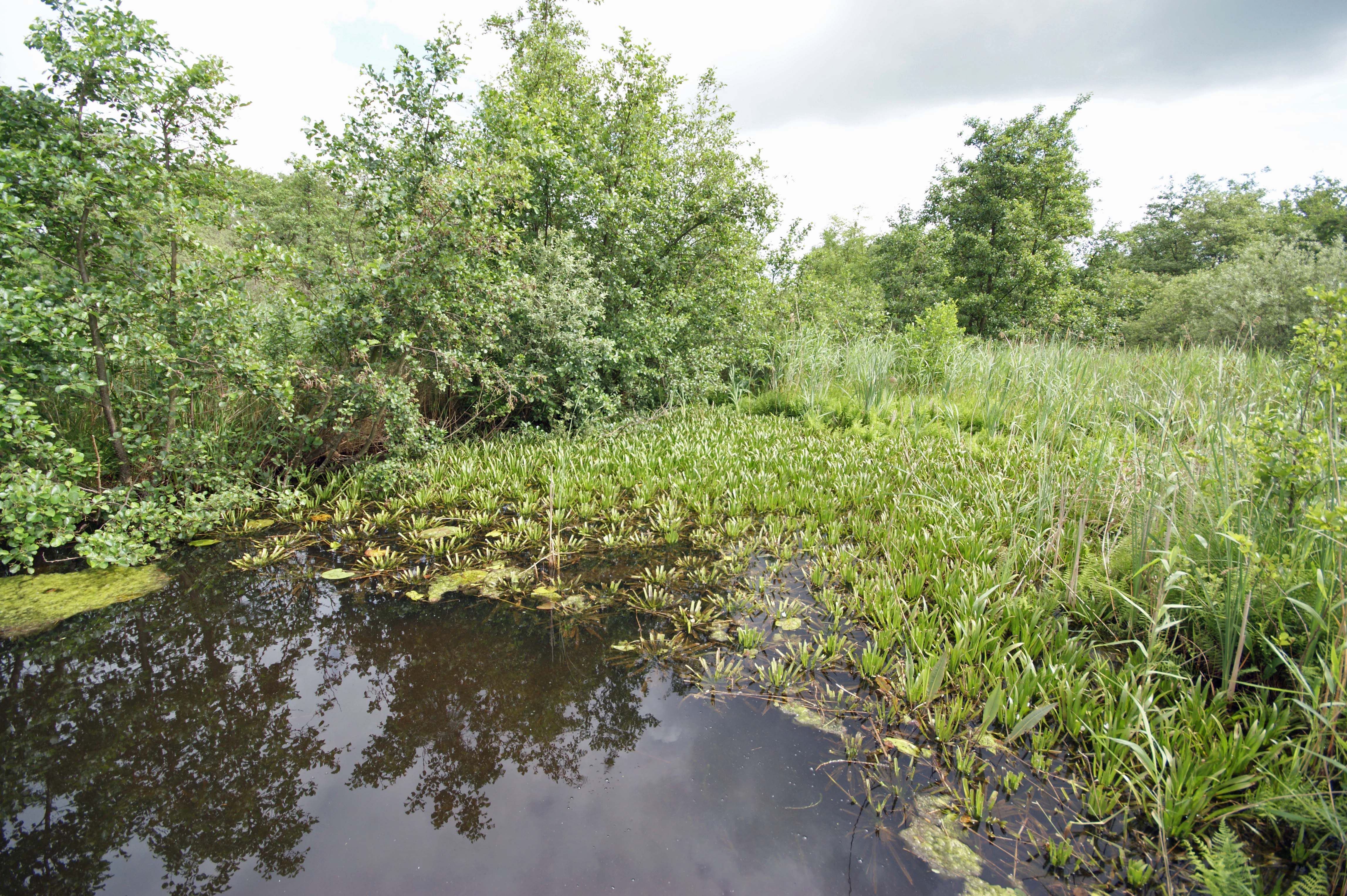 Krabbescheer, a plant that causes hydrosere.